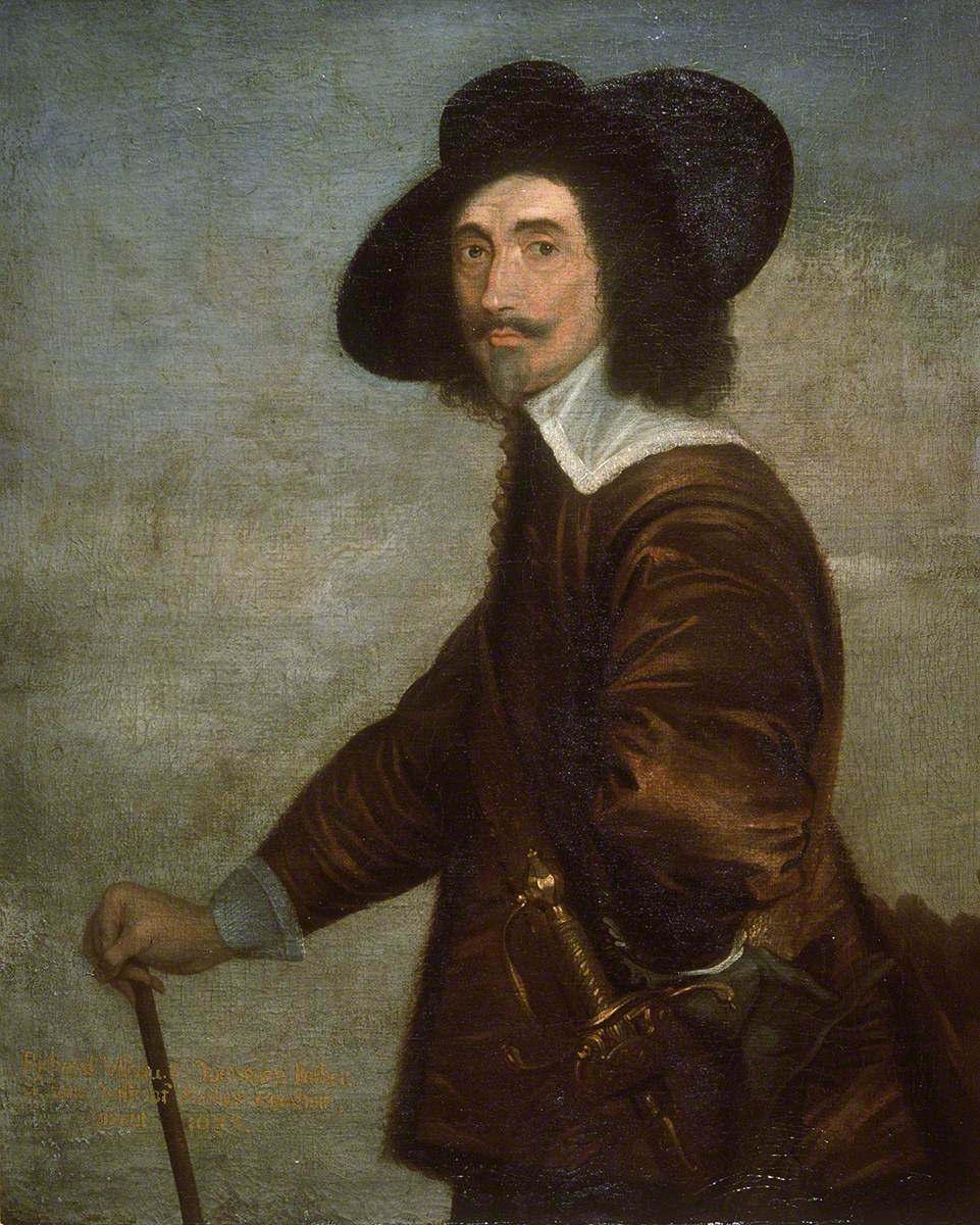 A painting from the Framed Works of Art collection at the National Library of wales.